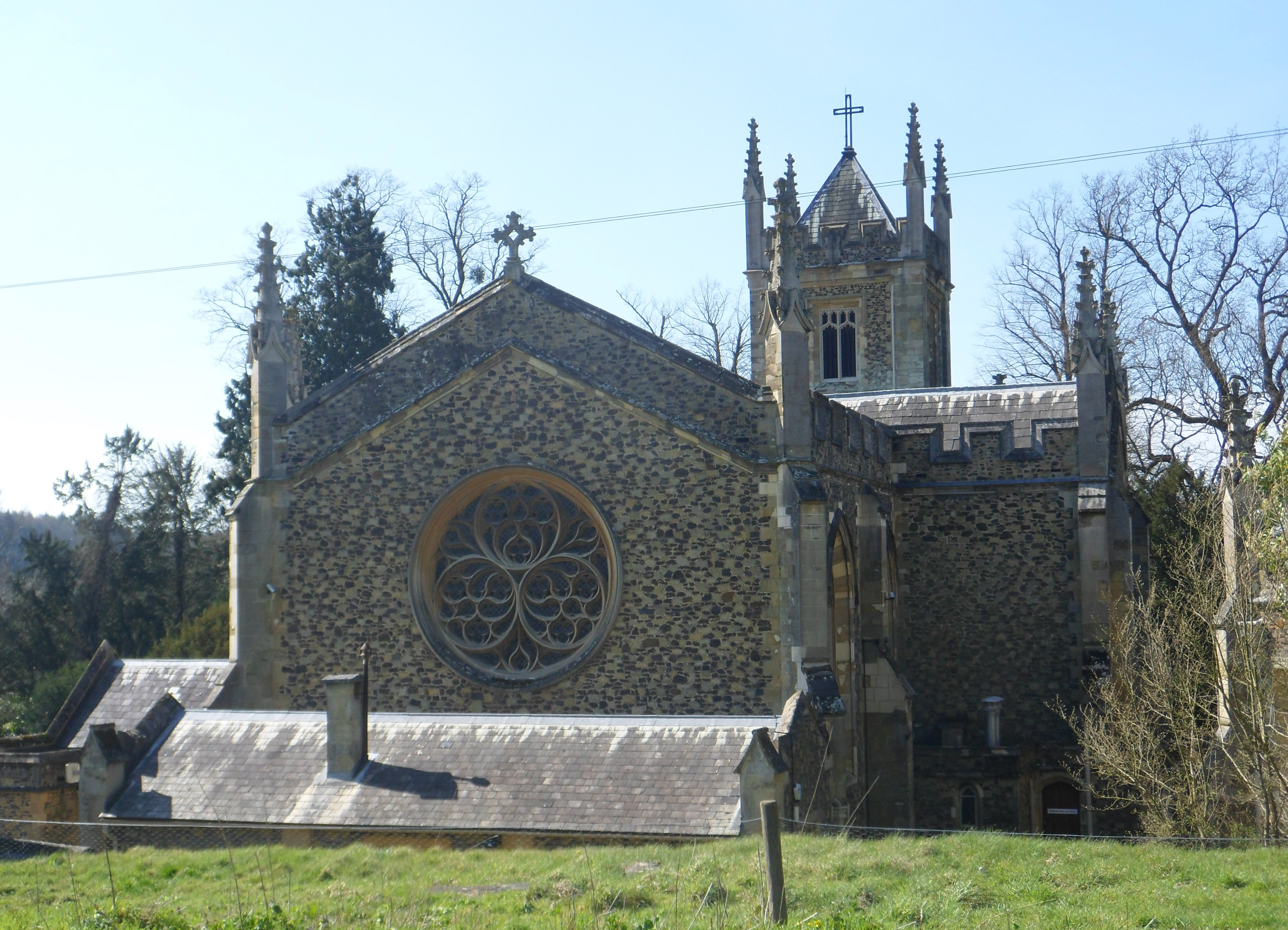 Former Catholic Apostolic Church, Albury Park, Albury, Borough of Guildford, Surrey, England. Designed in 1840 by William McIntosh Brooks for Henry Drummond of Albury Park.